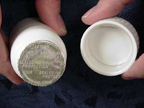 Induction sealed bottle